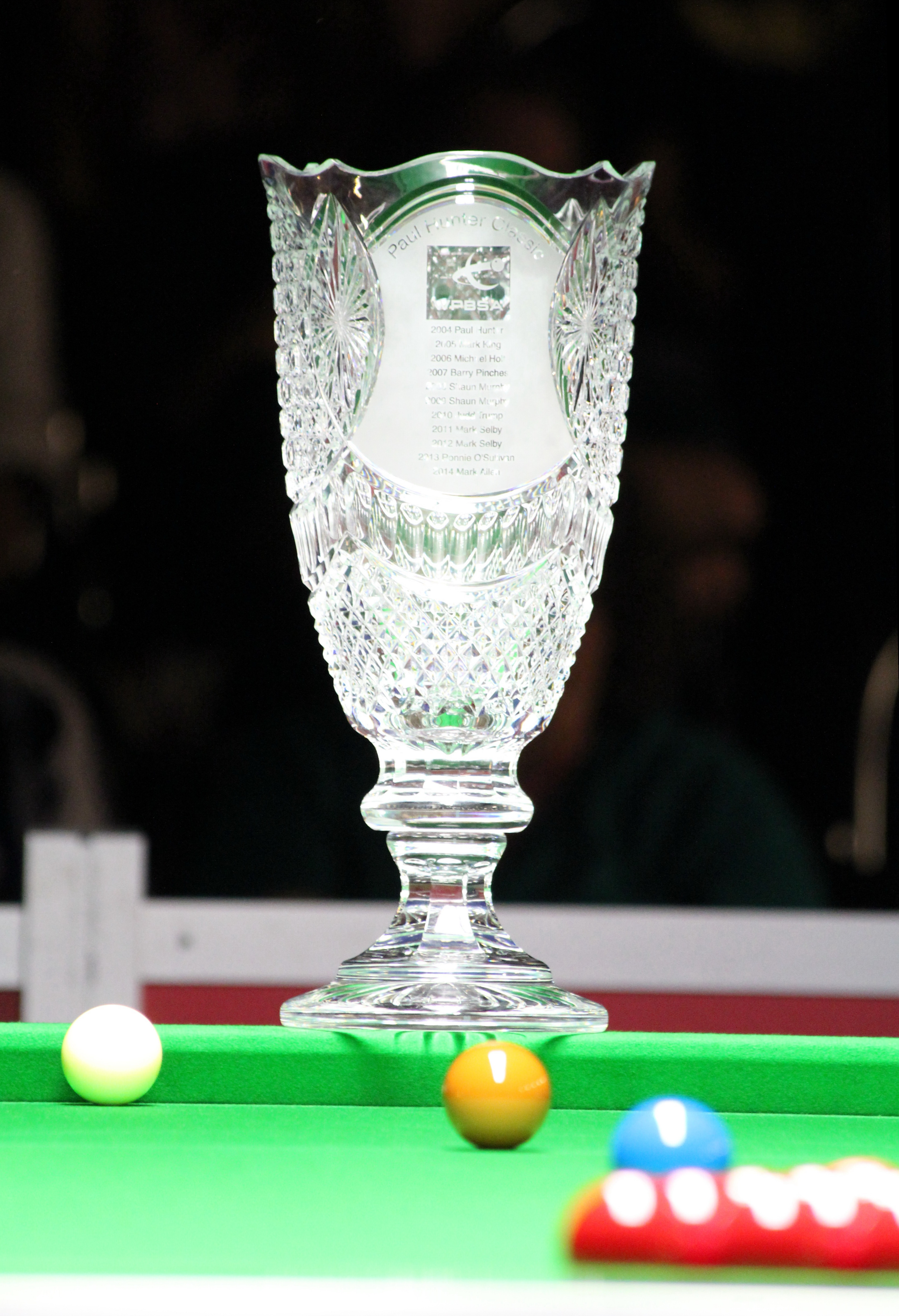 Cup of the Paul Hunter Classic (2017)